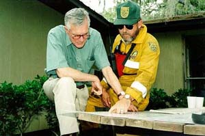 Putnam County, FL, June 29, 1998 -- Florida Governor, Lawton Chiles, looks at a map of the fire-affected area in Putnam County. Photo by Liz Roll